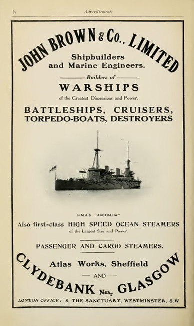 Advertisement for John Brown & Company shipbuilders in Brassey's Naval Annual 1915, showing HMAS Australia which they had constructed.